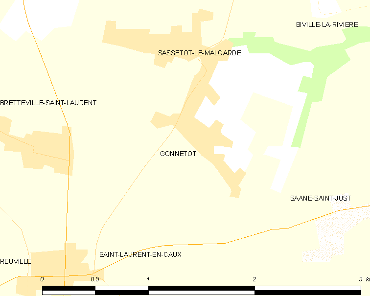 Map of French municipality Gonnetot